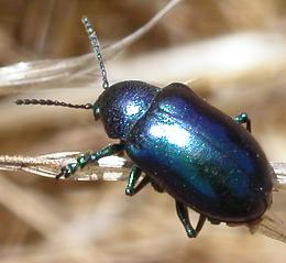 Chrysochus cobaltinus. I took this picture at White Slough near Lodi, CA.